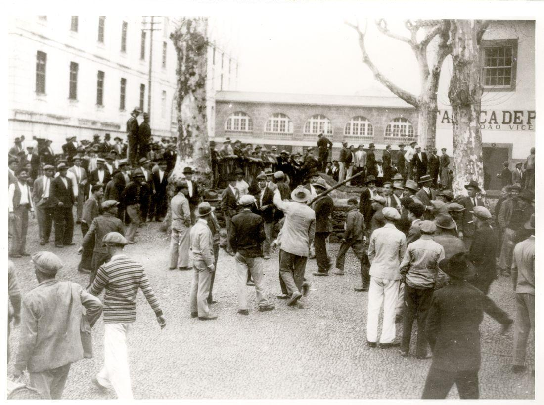 Photo of a crowd prostesting in February of 1931.